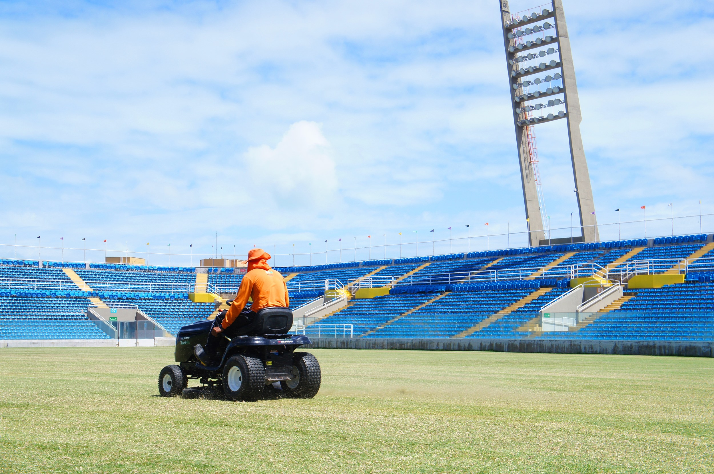 Presidente Vargas Stadium (4)